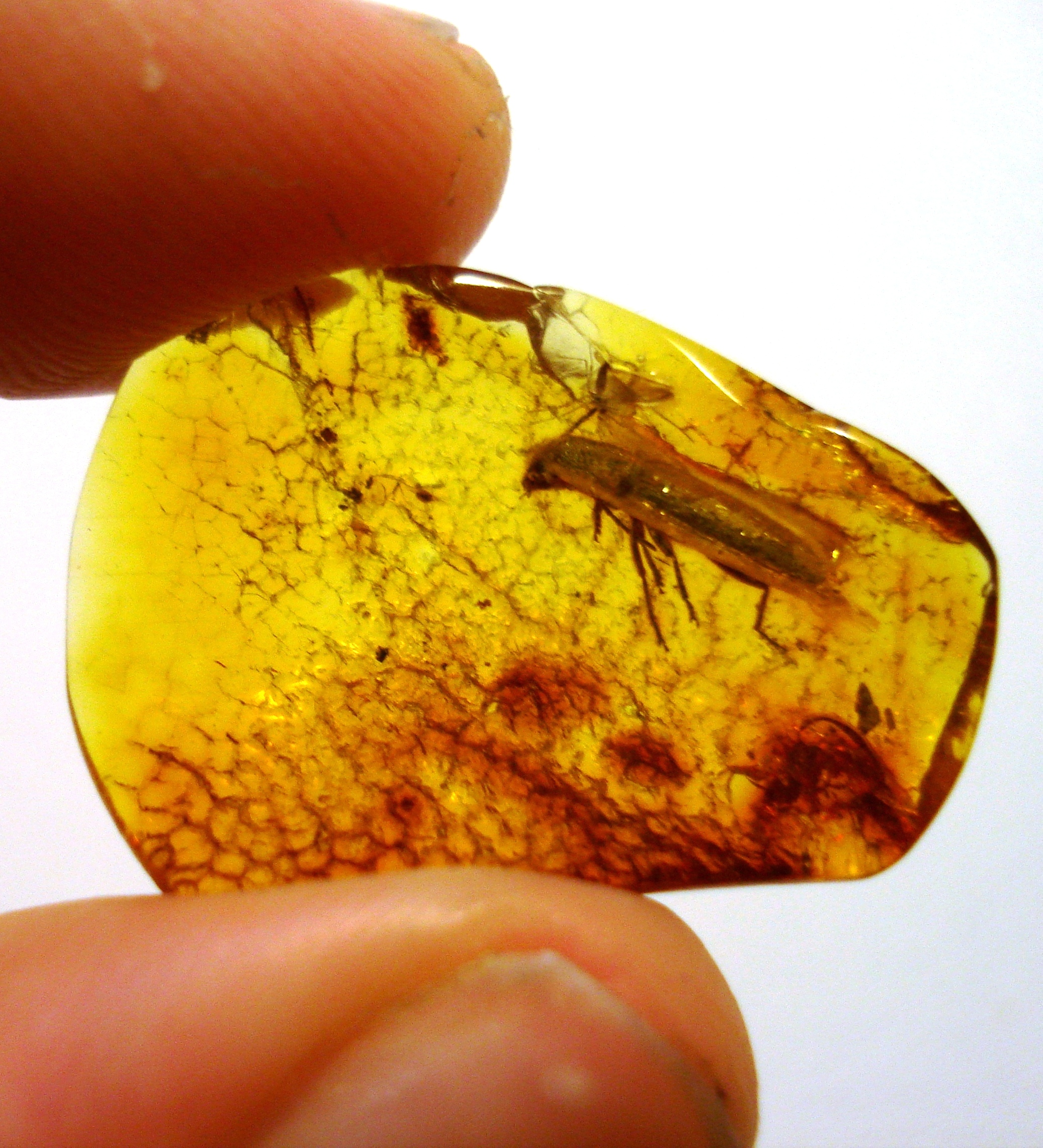 Baltic amber inclusions - 50 million years old - Coleoptera, Cerambycidae, Nothorhina granulicollis Zang, 1905 Length 10 mm. There is more photos of this beetle in the category "Images from Baltic-amber-beetle"